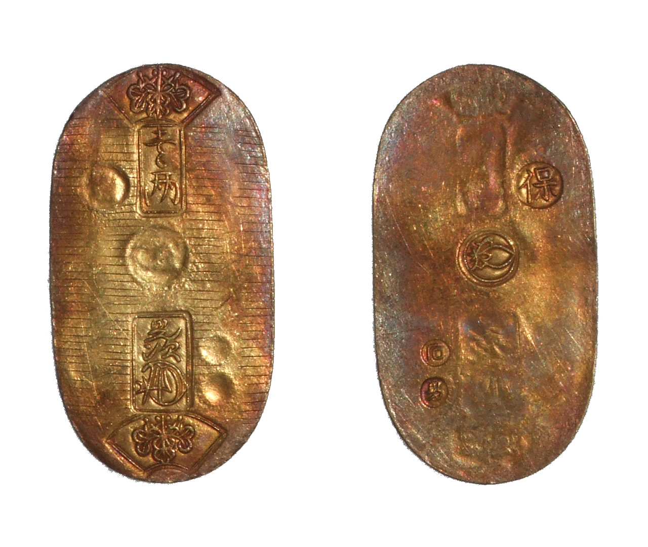 Hozi-koban(gold koban)